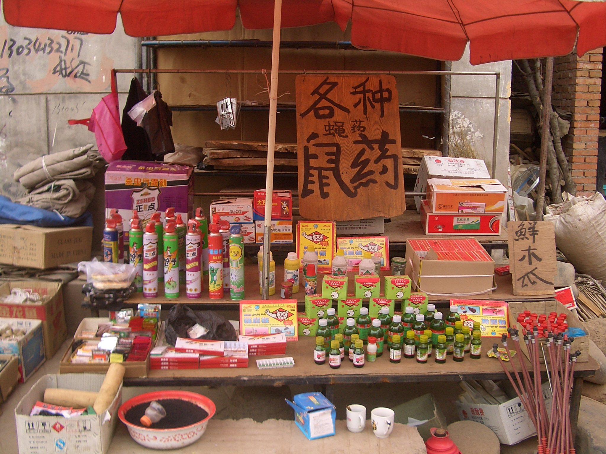 Rat and insect poison vendor's stall at a market in the Dongguan section of Linxia City.